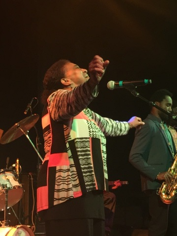 Doreen Shaffer on stage with The Skatalites at the Cedar Cultural Center in Minneapolis, MN, September 16th, 2016